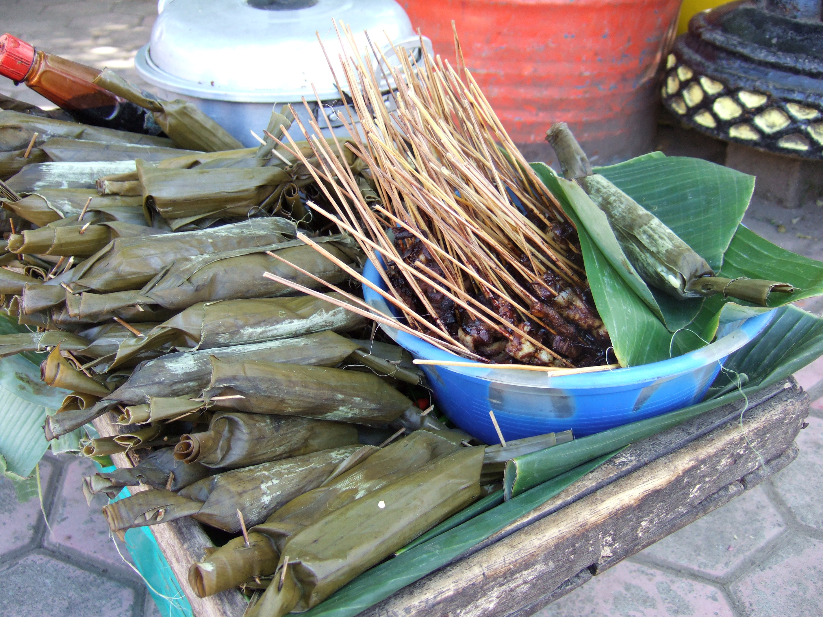 Chicken satay sold by street vendor, Central Java.